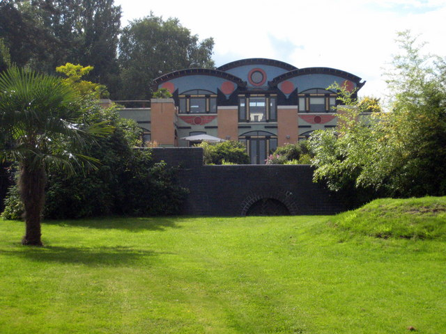 The Egyptian House at Moulsford Designed by John Outram in his trademark colourful style - more information here